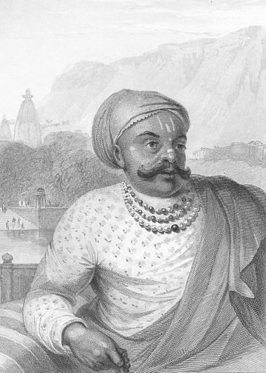 "Mahadajee Scindia," steel engraving of the Maratha chieftain, 1834, by Daniell and Taylor